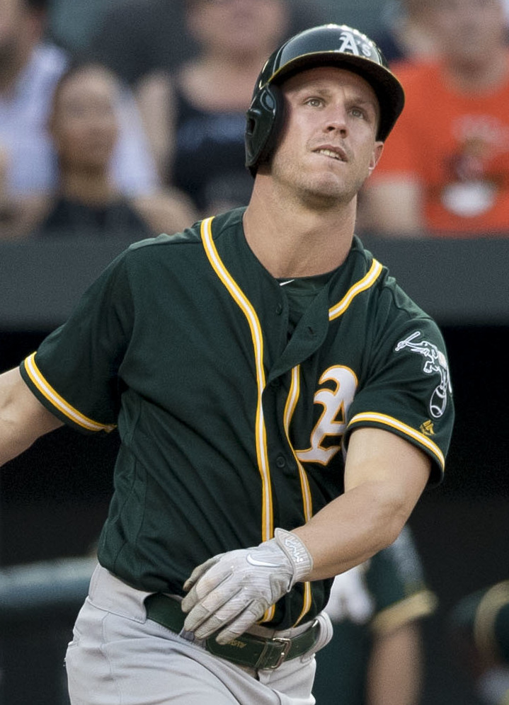 A's at Orioles 8/22/17